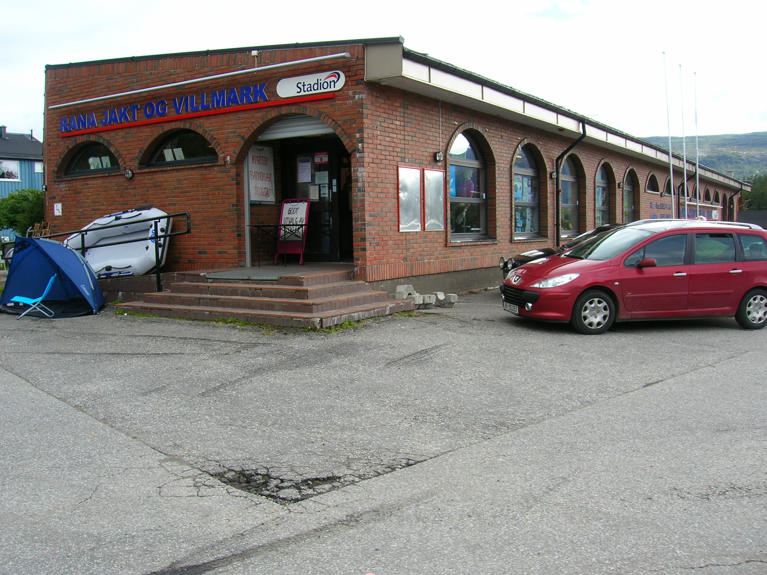 Rana jakt og villmark on Selfors, 4 km north of Mo i Rana, Rana municipality, county of Nordland, Norway, Photo 3 September, 2007 with a Nikon Coolpix 5600 5,1 Megapixel camera.